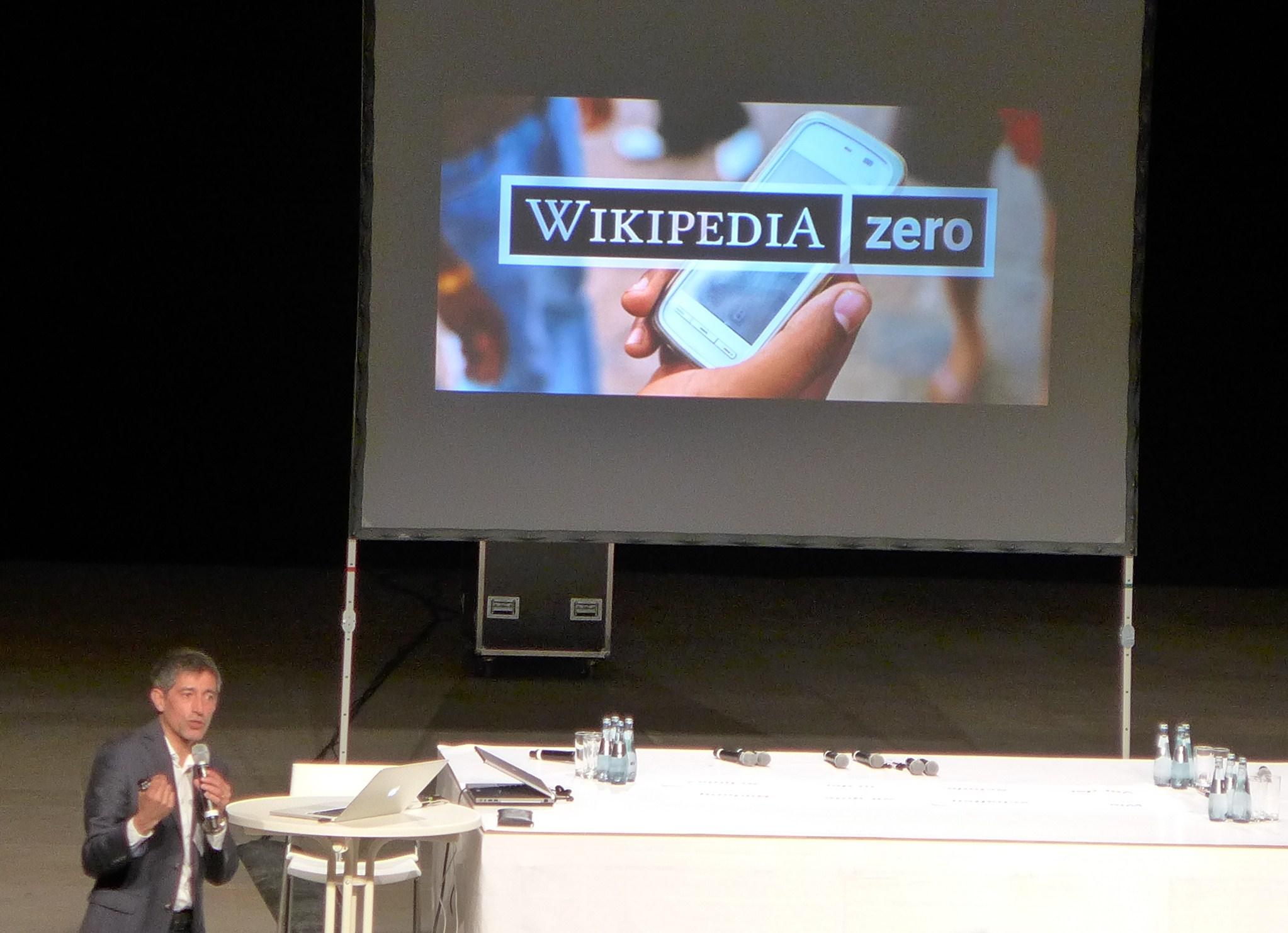 Ranga Yogeshwar discusses possible role of wikipedia zero in improving public education